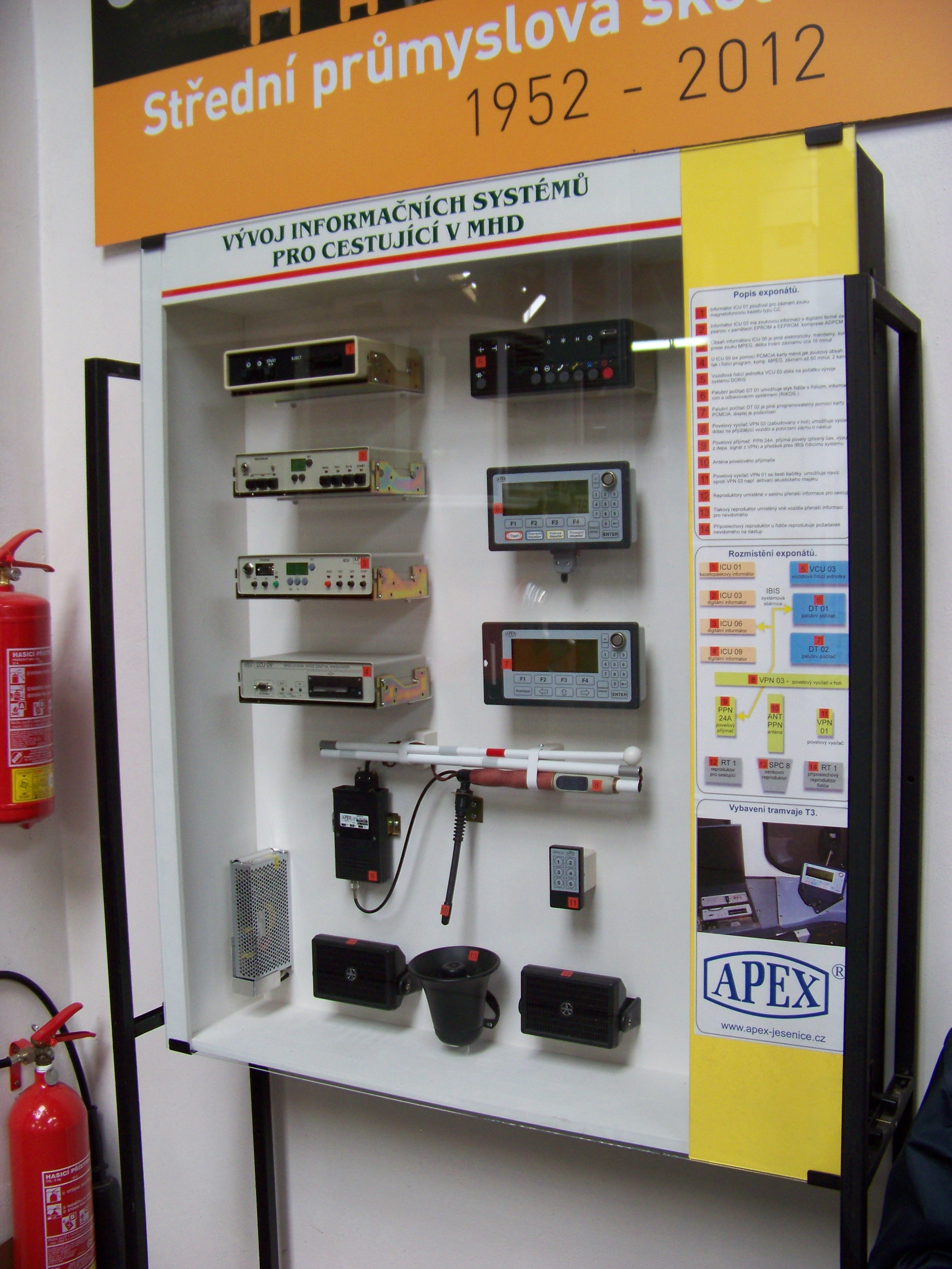 Prague-Střešovice, Czech Republic. Střešovice tram depot, Public Transport Museum. Passenger information systems, station name players.